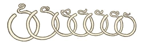 Slavic female burial decoration